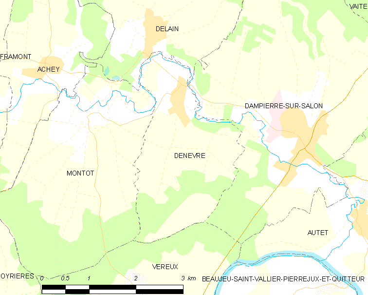 Map of French municipality